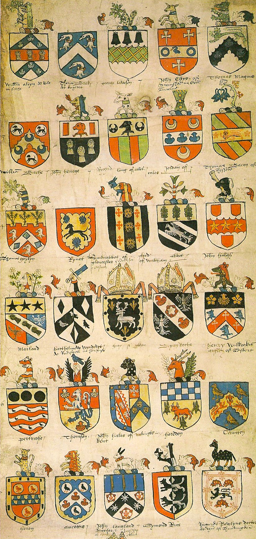 Roll of grants of arms and crests of circa 1528 by Sir Thomas Wriothesley, showing complicated early Tudor coats.